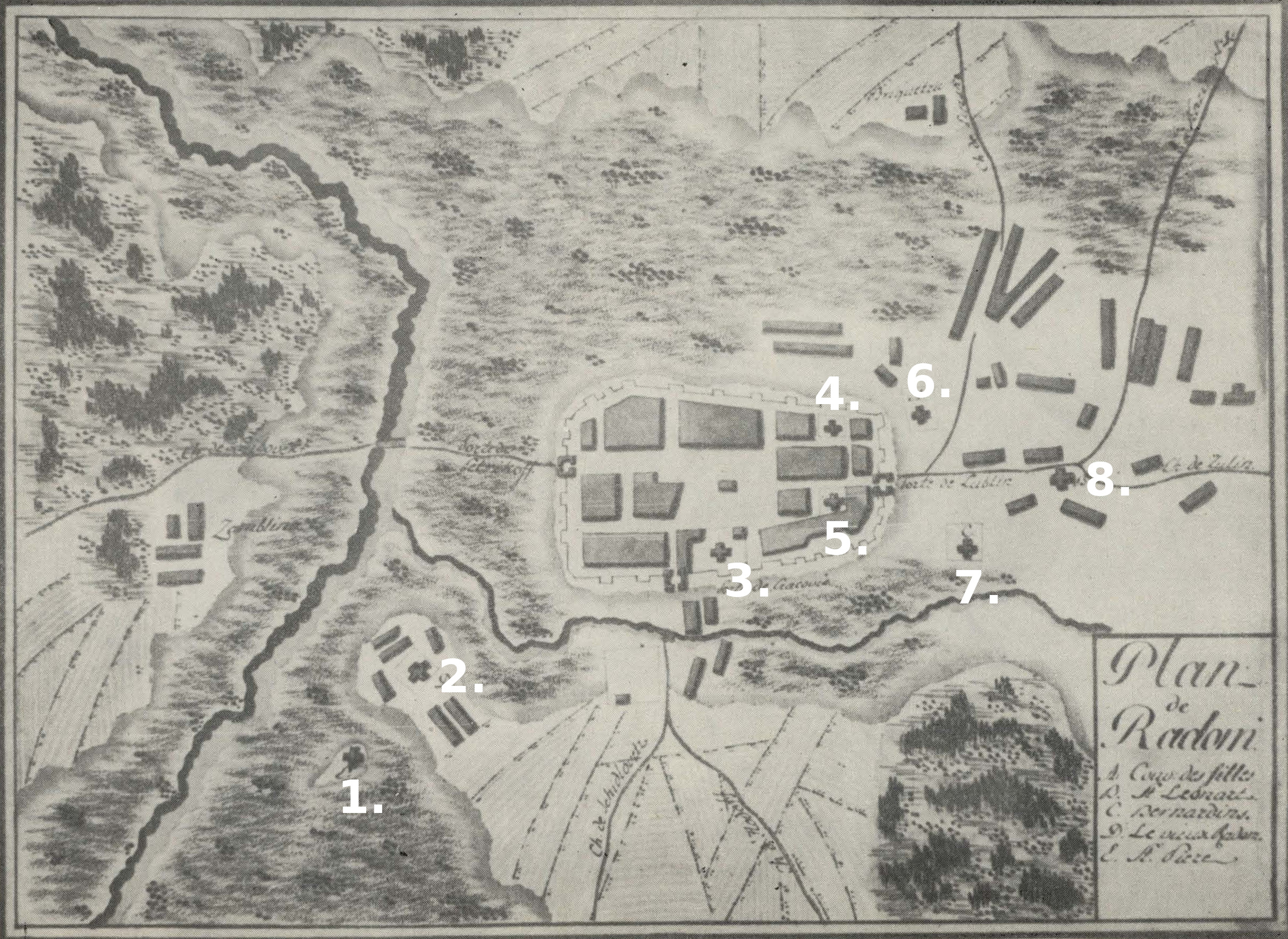 Plan od Radom, Poland (18th century)